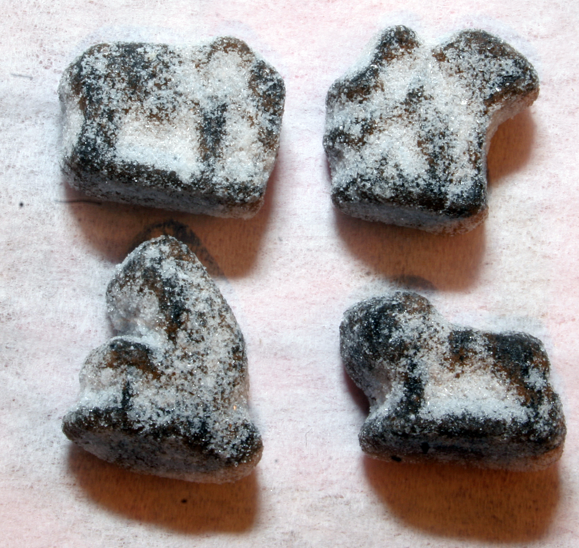 "Djungelvrål" liquorice candy from Malaco candy brand